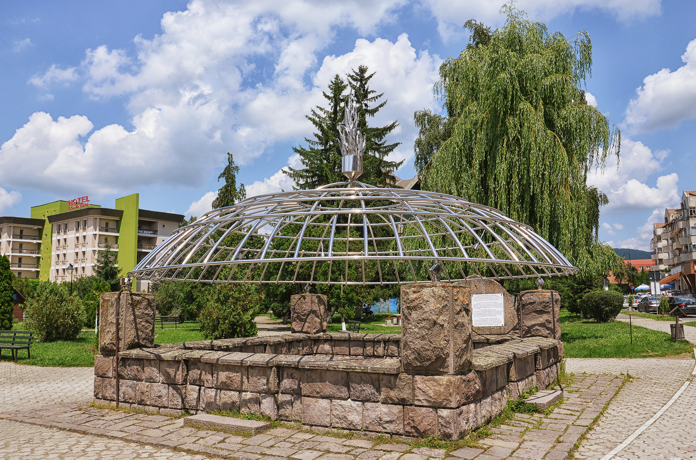 The Devil’s Lake in Covasna